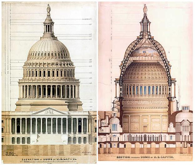 Elevation and cross section drawings of the U. S. Capitol dome made in 1859 by the architect who designed it, Thomas U. Walter. The cross section drawing shows the bolted cast iron frame.